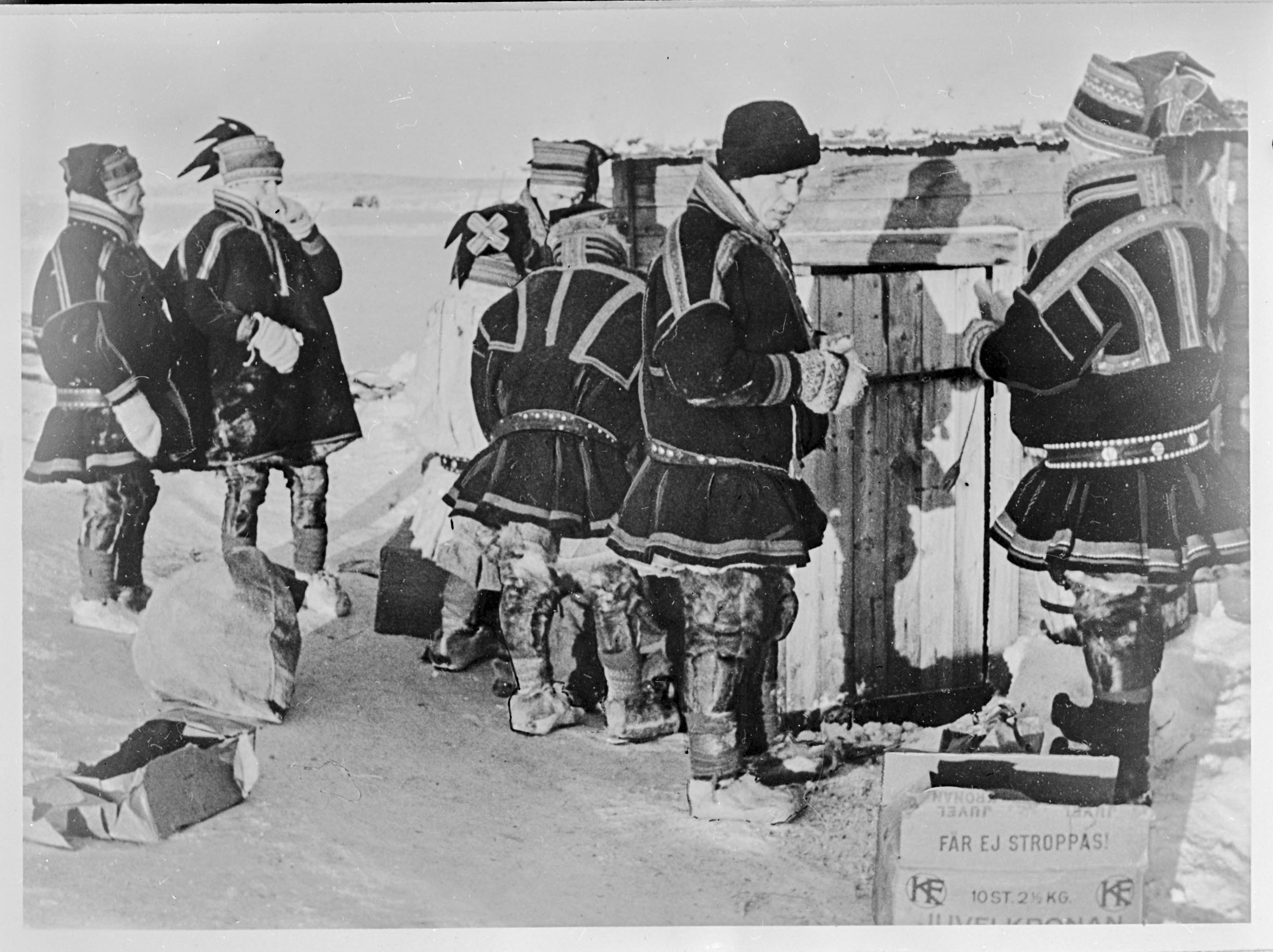 Photos from Flickr album "Evakueringen og frigjøringen av Finnmark" (The Evacuation and Liberation of Finnmark, 2015) by Riksarkivet (National Archives of Norway). Towards the end of World War II, with Operation Nordlicht, the Germans used the scorched earth tactic in Finnmark and northern Troms to halt the Red Army. As a consequence of this, few houses survived the war, and a large part of the population was forcefully evacuated further south (Tromsø was crowded), but many people avoided evacuation by hiding in caves and mountain huts and waited until the Germans were gone, then inspected their burned homes. There were 11,000 houses, 4,700 cow sheds, 106 schools, 27 churches, and 21 hospitals burned. There were 22,000 communications lines destroyed, roads were blown up, boats destroyed, animals killed, and 1,000 children separated from their parents. However, after taking the town of Kirkenes on 25 October 1944 (as the first town in Norway), the Red Army did not attempt further offensives in Norway. The town was handed over to Norway as the war ended. When war was over, more than 70,000 people were left homeless in Finnmark. The government imposed a temporary ban on residents returning to Finnmark because of the danger of landmines. The ban lasted until the summer of 1945 when evacuees were told that they could finally return home.